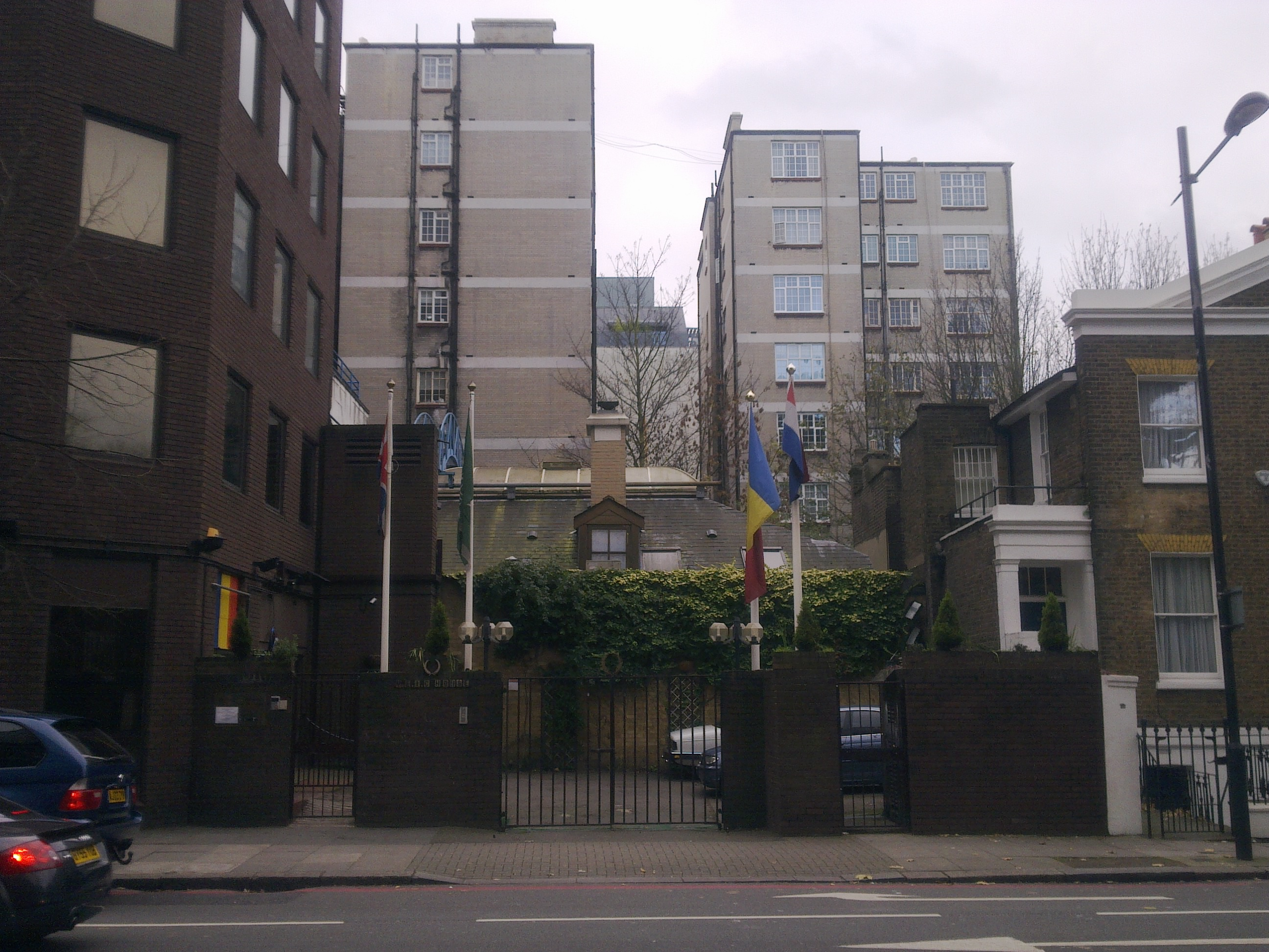 Embassy of Paraguay in London 3